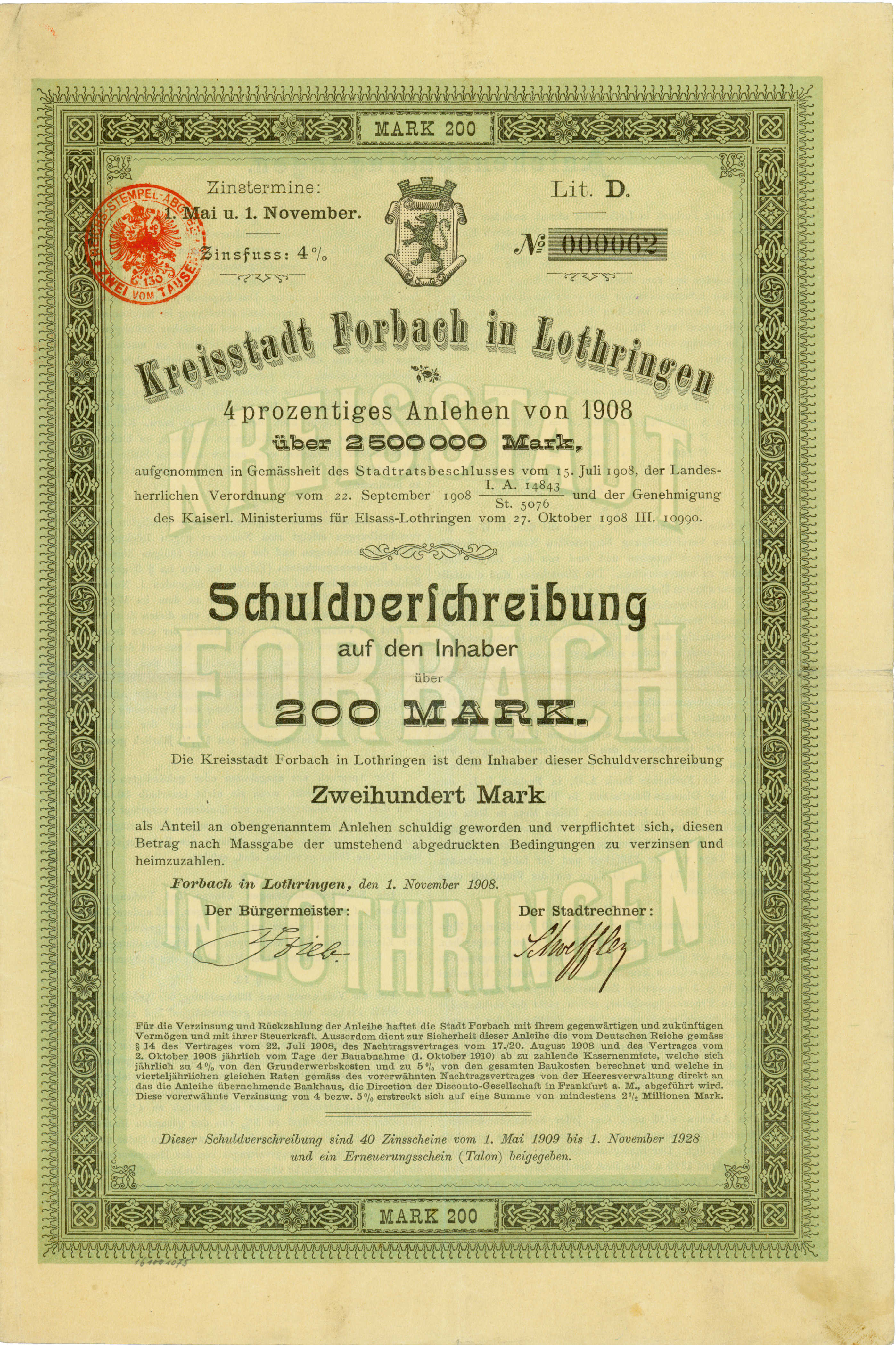 Bond of the district town Forbach, issued 1. November 1908; issued to finance the electrification of tramway lines, canal construction and a slaughter house.